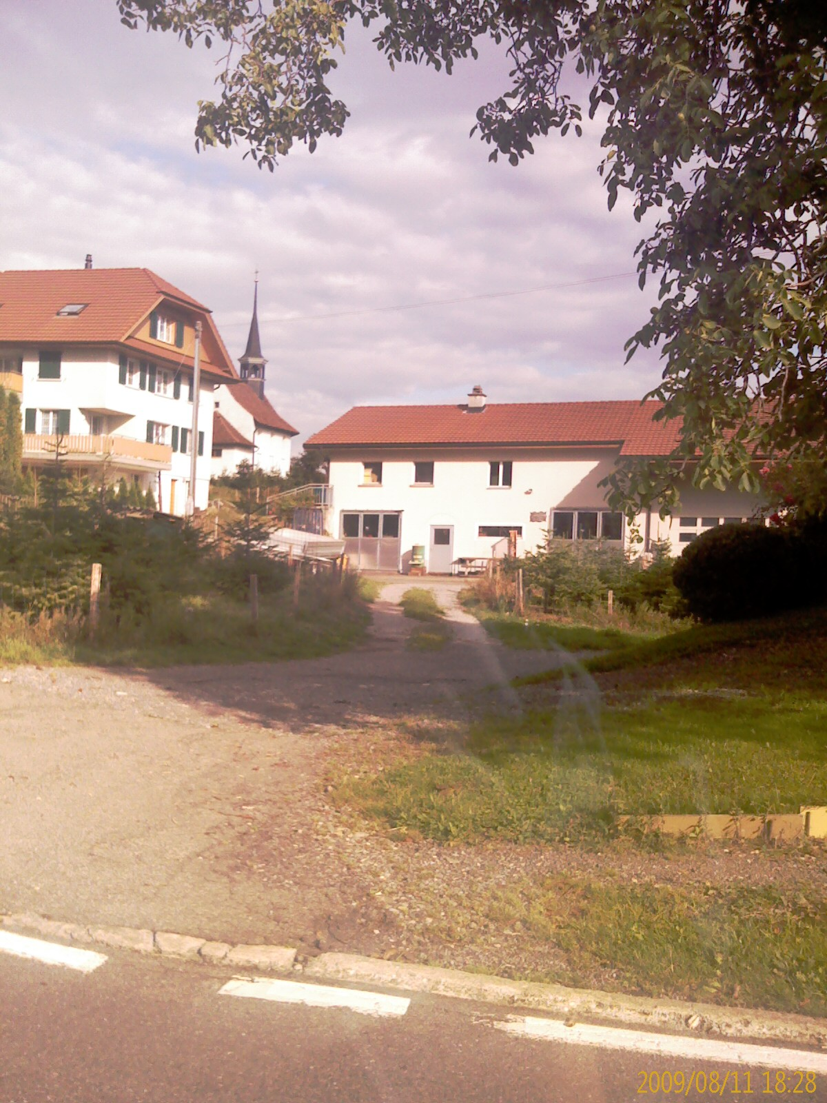 Tann, municipality of Schenkon, canton of Luzern, SwitzerlandEsperanto: Tann, komunumo Schenkon, Kantono Lucerno, Svislando